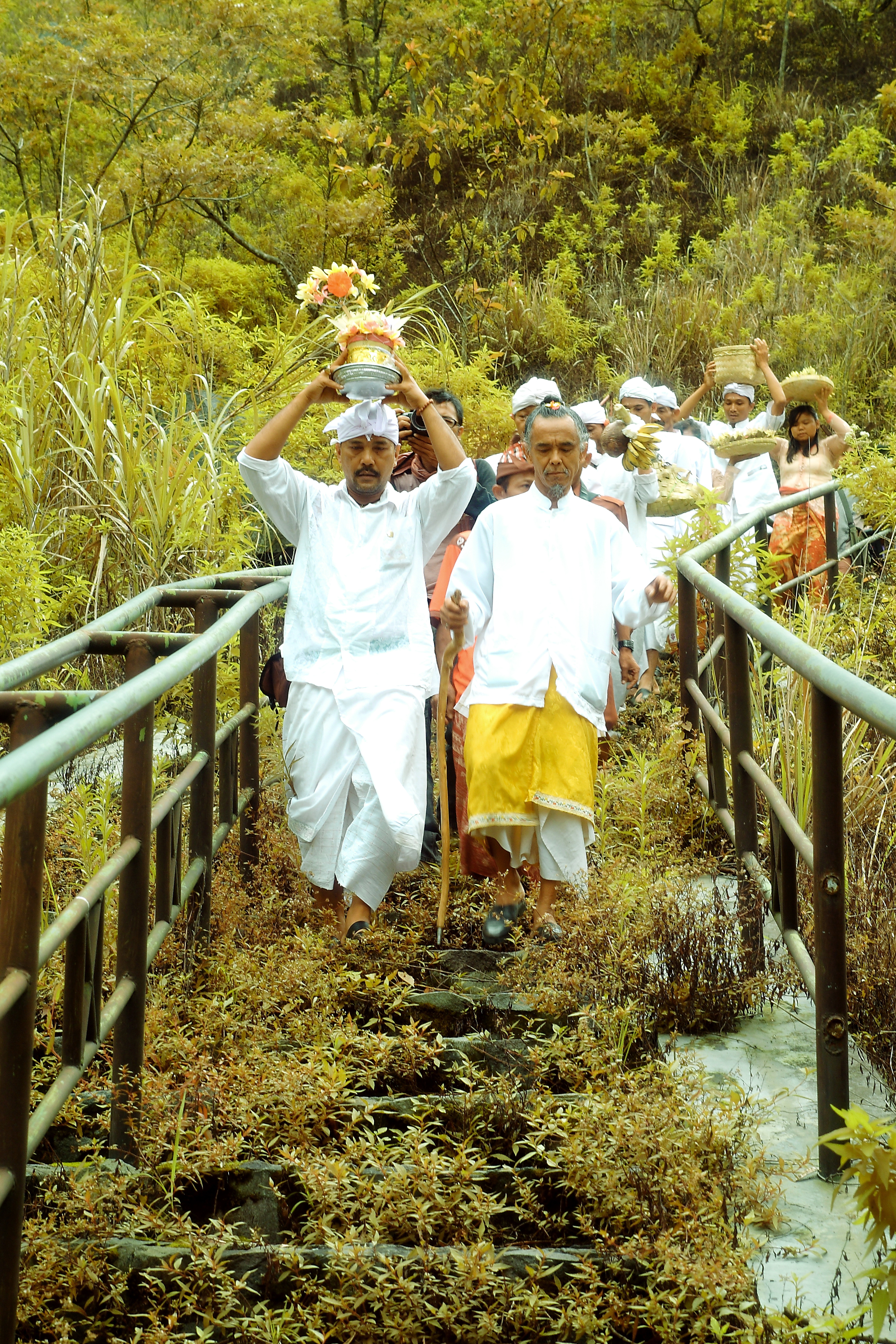 Sebuah ritual yang telah menjadi agenda tahunan di kabupaten kediri yaitu larung sesaji di kawah gunung kelud "Ritual larung sesaji ini merupakan simbol menyatunya alam semesta dengan manusia. Sebagai sarana memuji syukur pada semua bentuk Kekuasaan Tuhan,"